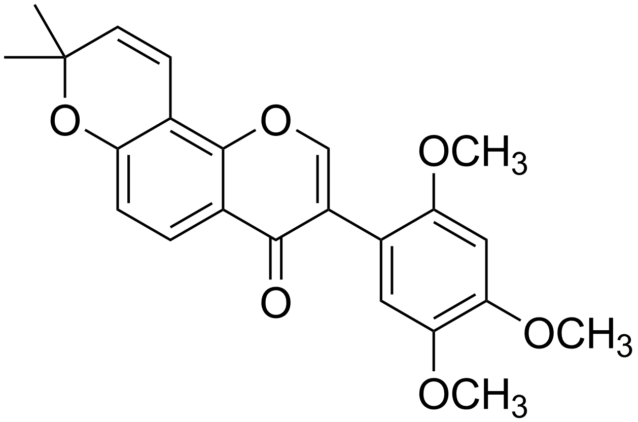 Chemical structure of barbigerone.